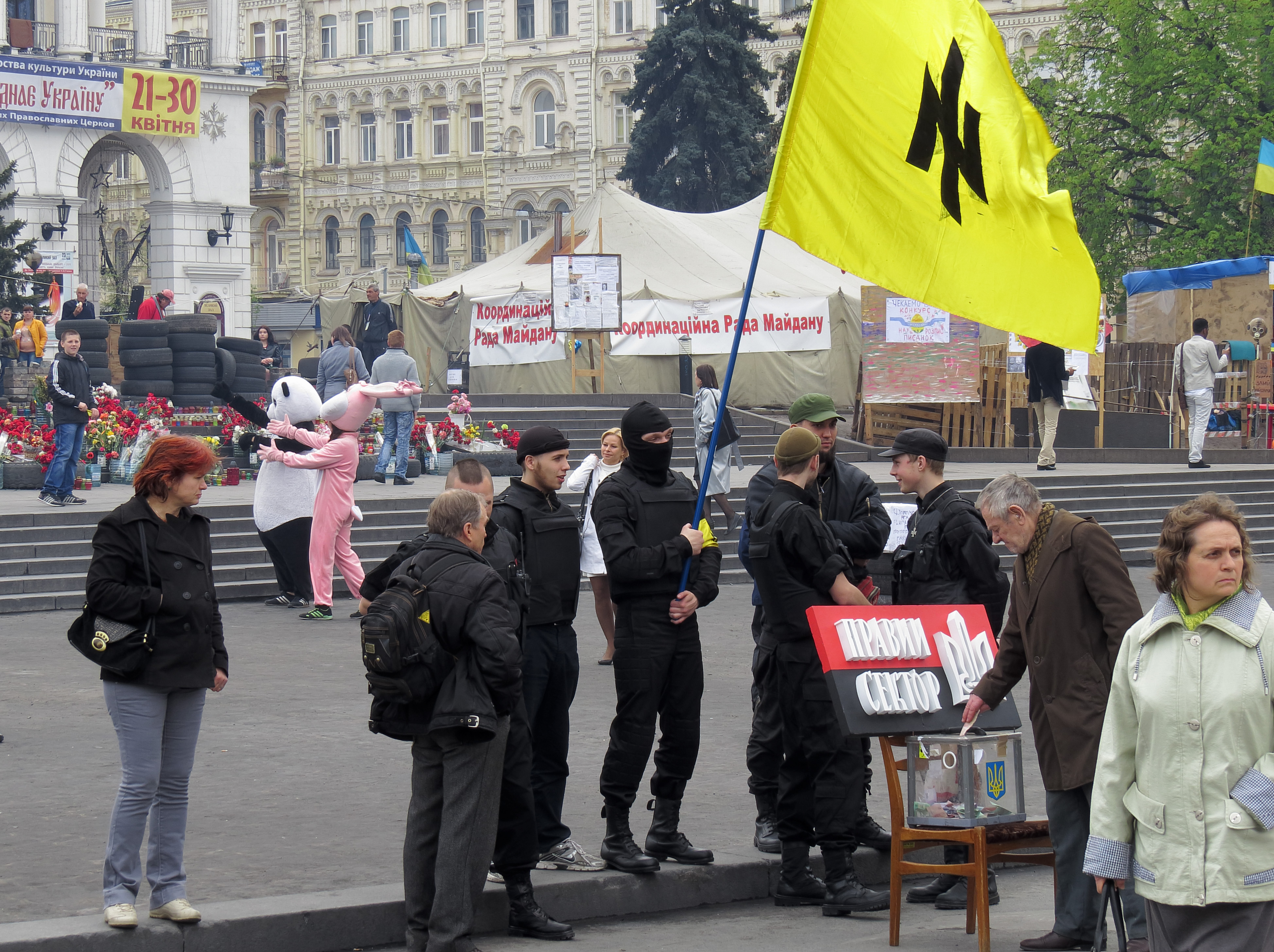 Kiev. Right Sector activists on Maidan